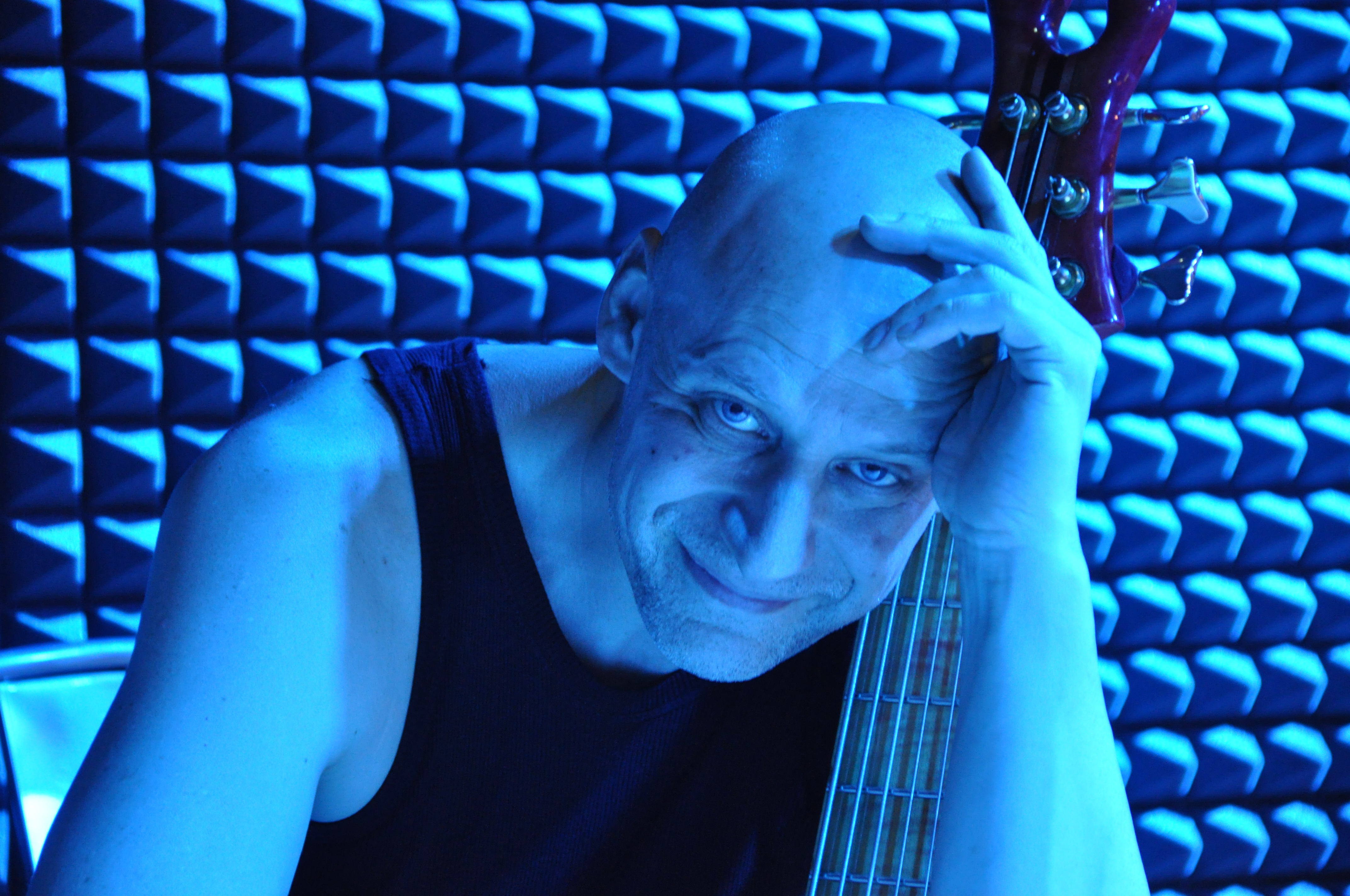 The Czech bass guitar player Richard Scheufler photographed in June 2010 before one of his concerts in Bratislava, Slovakia.